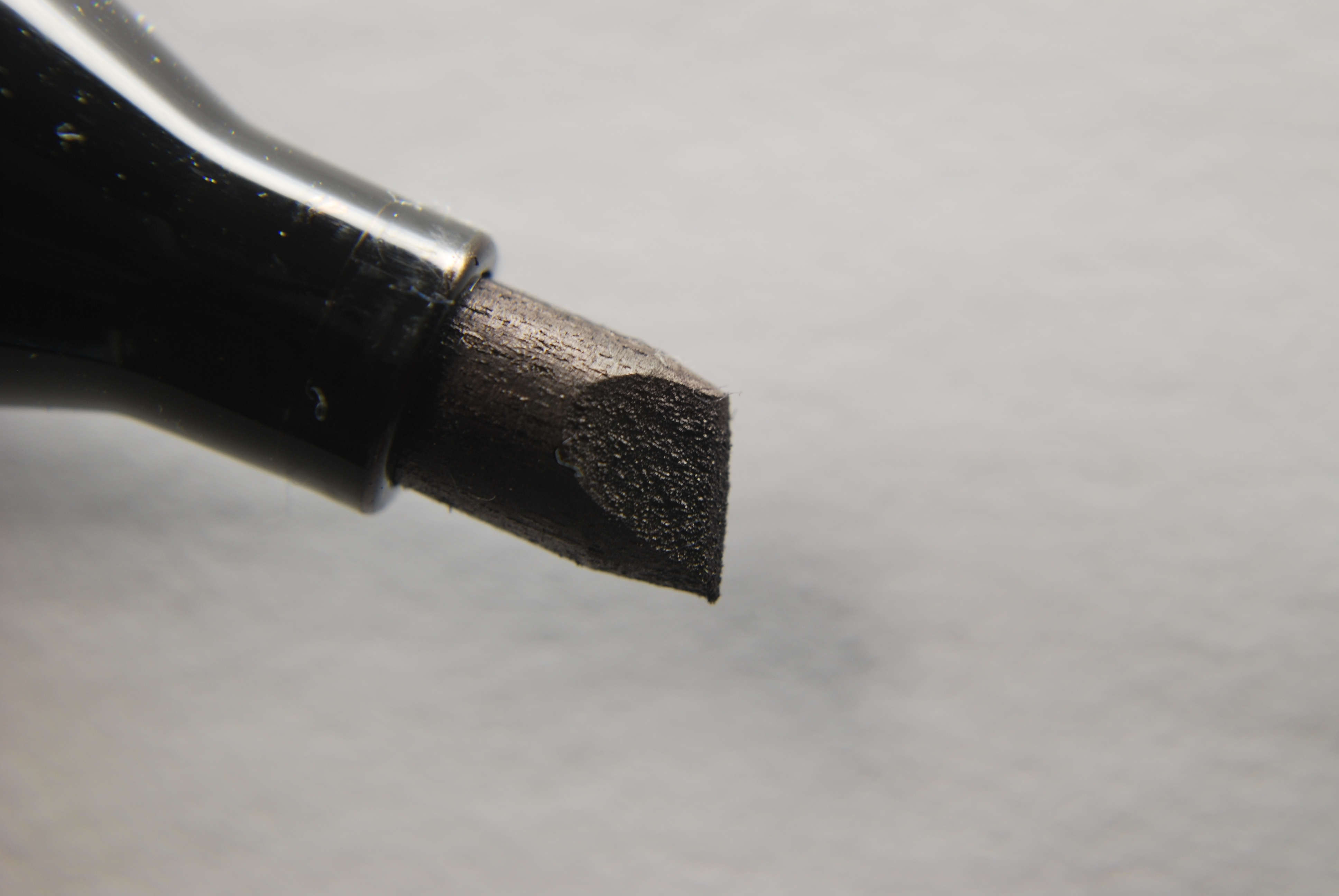 A permanent ink marker featuring a chisel tip. Part number 07051 from "Universal".